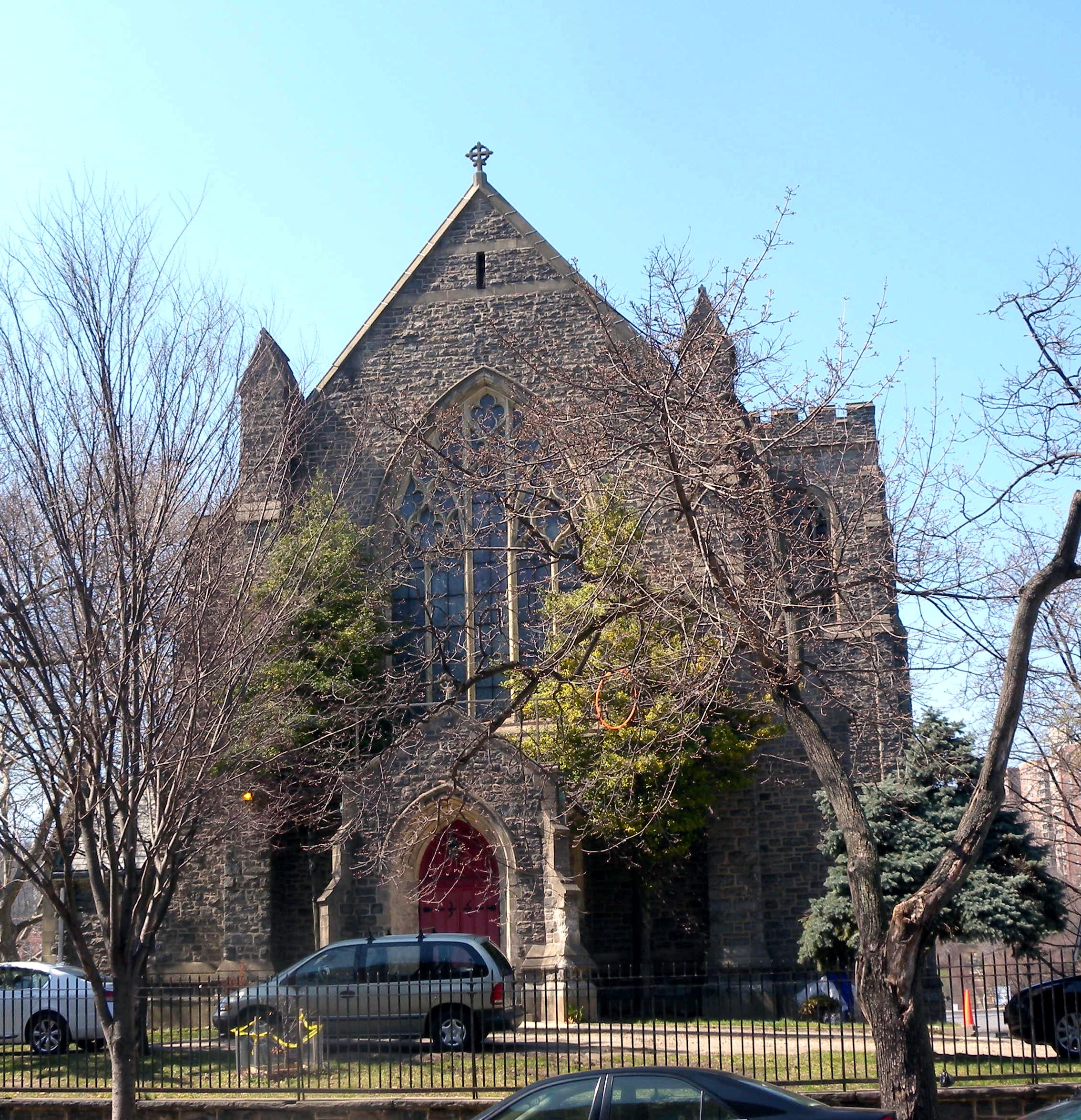 Looking west across Kingsbridge Avenue at Episcopal Church of the Mediator (Bronx, New York) on a sunny midday.